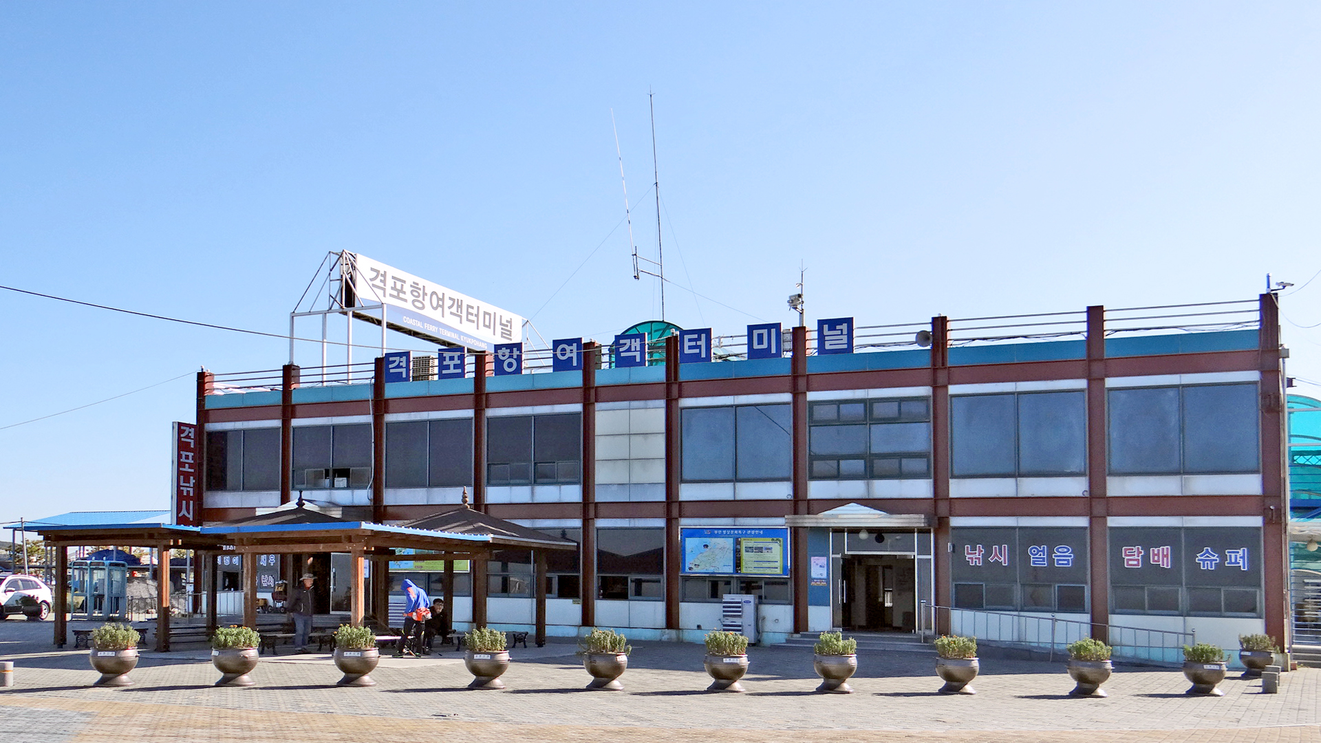 Gyeokpo Harbor Port Authority - Gyeokpo Port is a tourist destination and a first class port linking islands on the West Coast like Wido and Gogunsangundo. In the past Gyeokpo Harbor was a base for naval forces. A chief for the navy forces and government officials were assigned here during the Joseon Dynasty.